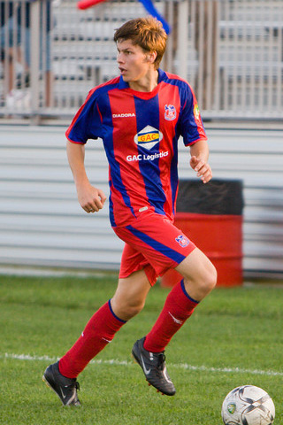 English forward, Charlie Sheringham, playing for Crystal Palace FC USA in a soccer match at Navy-Marine Memorial Stadium in Annapolis MD on June 16 2007 against the Bermuda Hogges in the United Soccer Leagues 2nd Division.